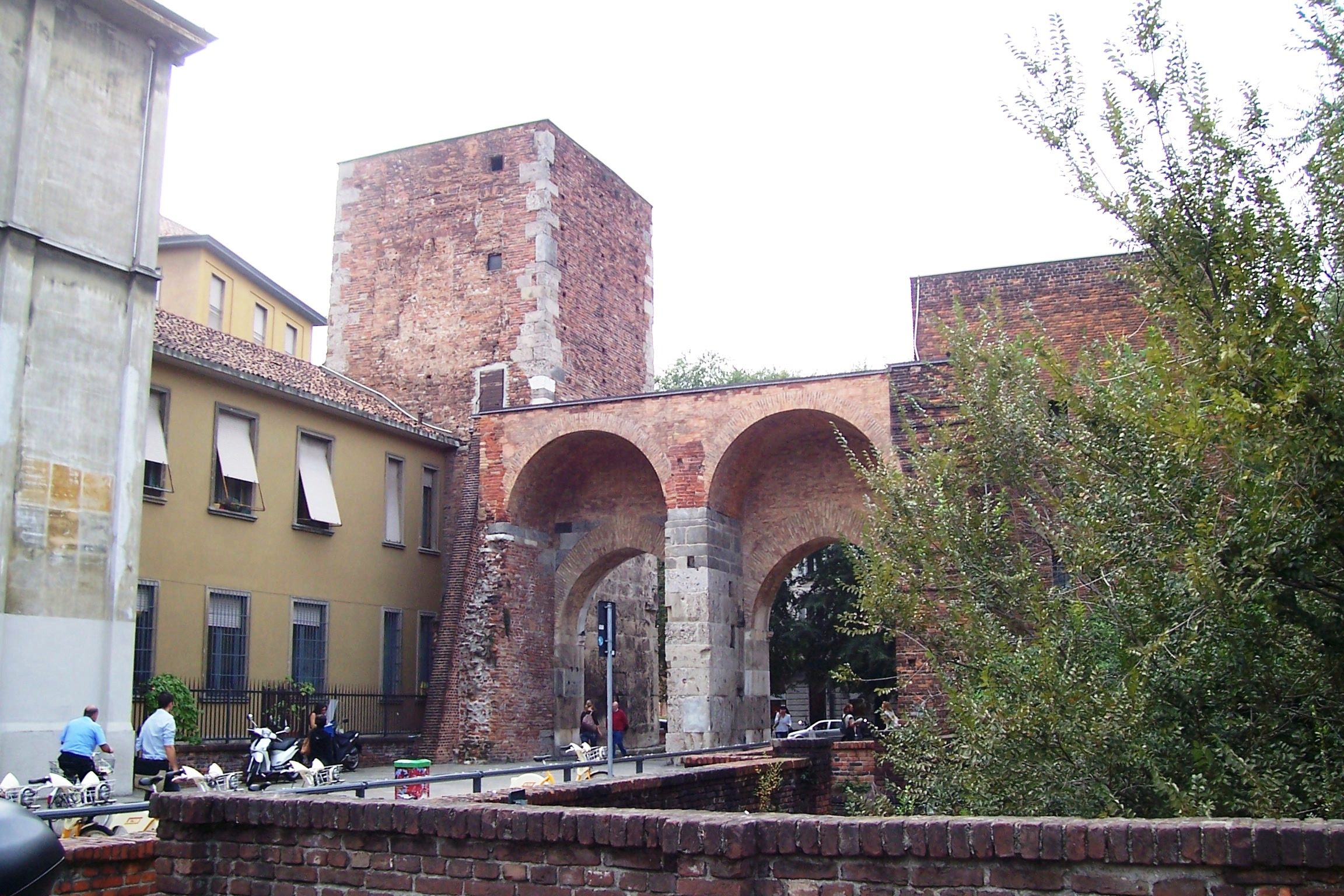 Milan, pusterla (secondary gates) di Sant'Ambrogio, in medieval Walls